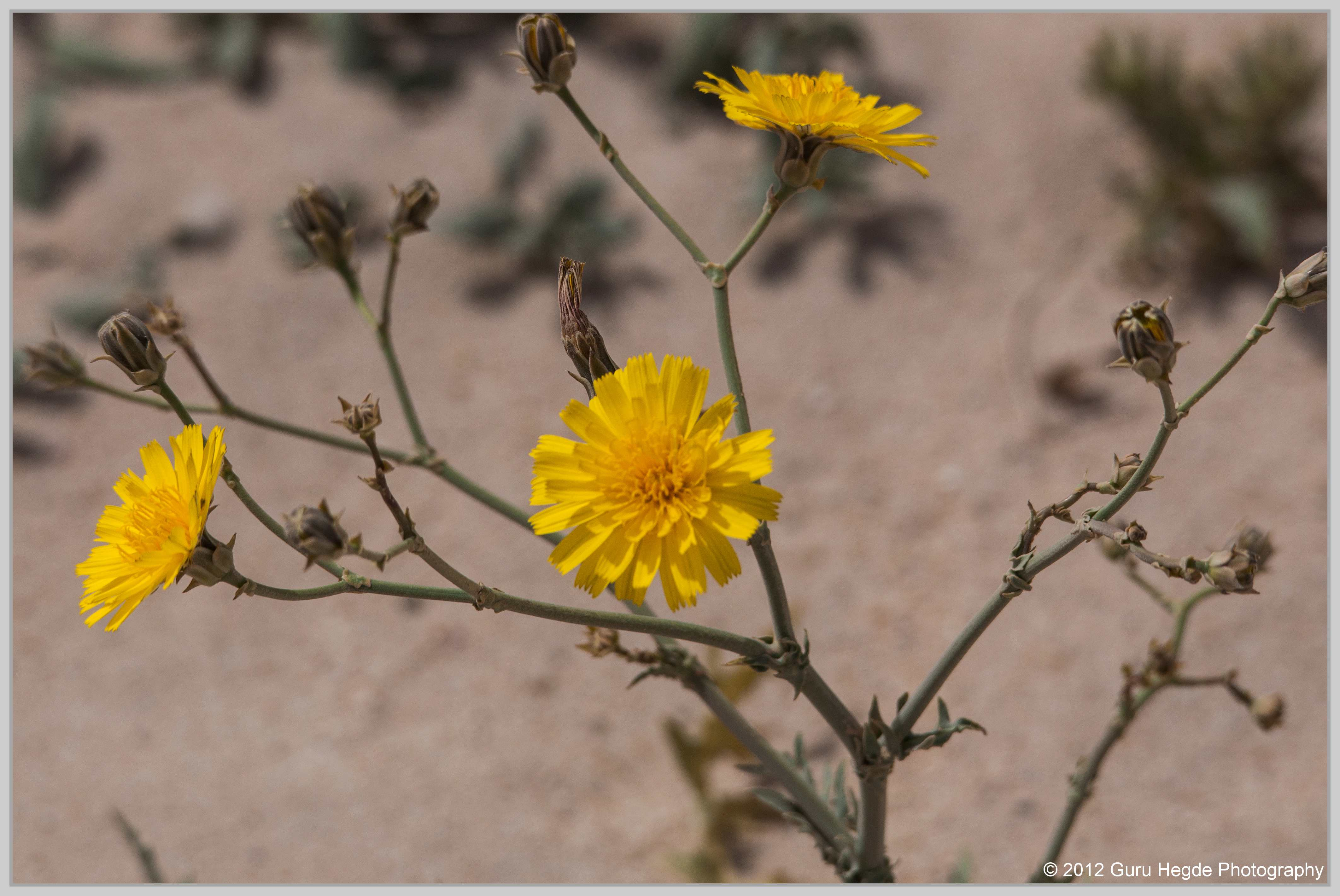 Kuwait National Flower, locally known as Arfaj and found almost all over in Kuwait including the deserts. The botonical name is Rhanterium epapposum.